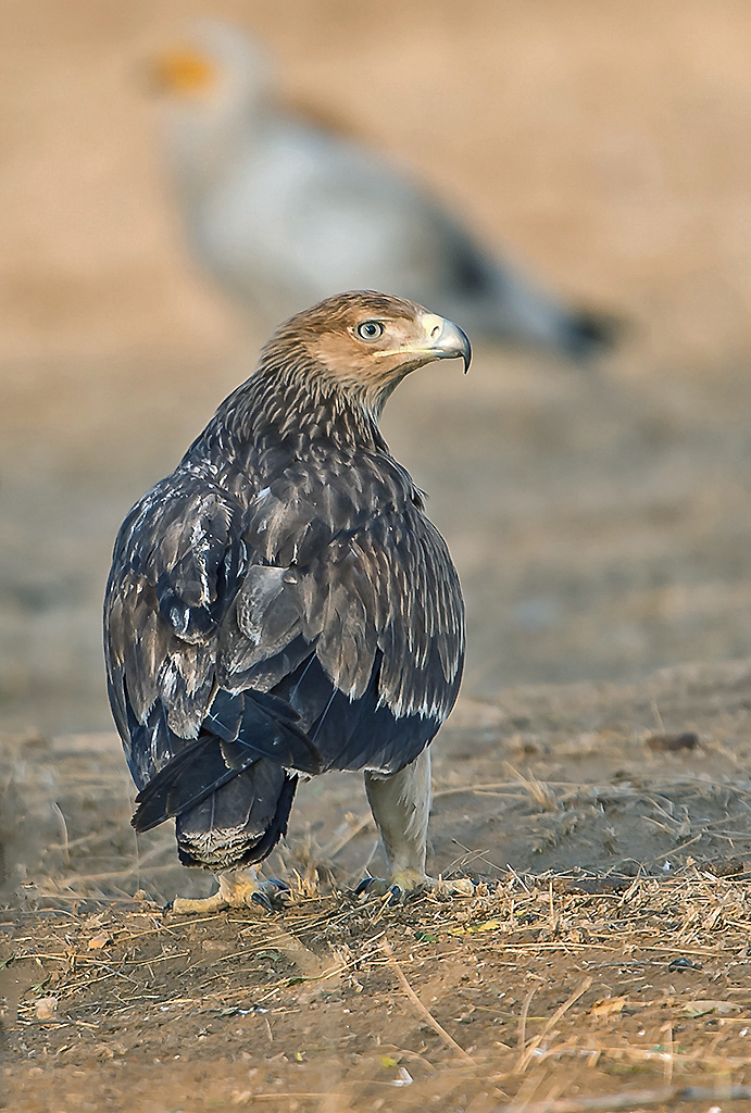 Juvenile Eastern Imperial Eagle, also known as Asian Imperial Eagle (Aquila heliaca) is a large bird of prey which is facing serious threat to its existence. It has almost disappeared from many of its conventional range and. It breeds in Bulgaria, Turkey, Hungary and Slovakia. Estimated breeding population is less than 400 pairs. During winter they migrate to parts of Africa and Asia, especially, Pakistan and North India. Seen at Jor-Bir Vulture Conservation, Rajasthan. March 2016